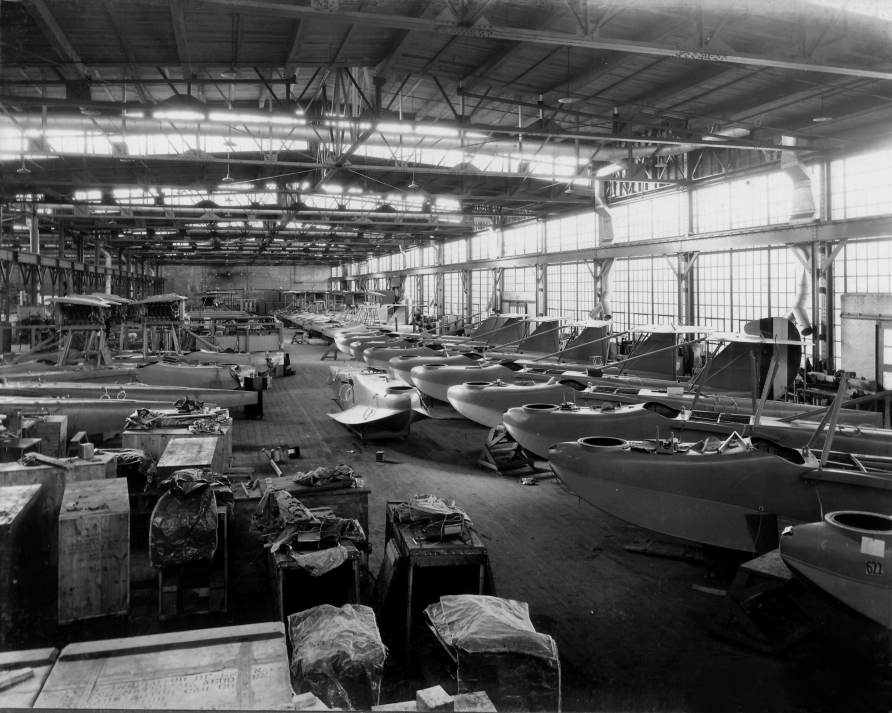 Completed hulls of U.S. Navy HS-1 flying boats pictured in final assembly prior to shipment to the U.S. Navy by the Curtiss Aeroplane and Motor Company, Inc., during the First World War.